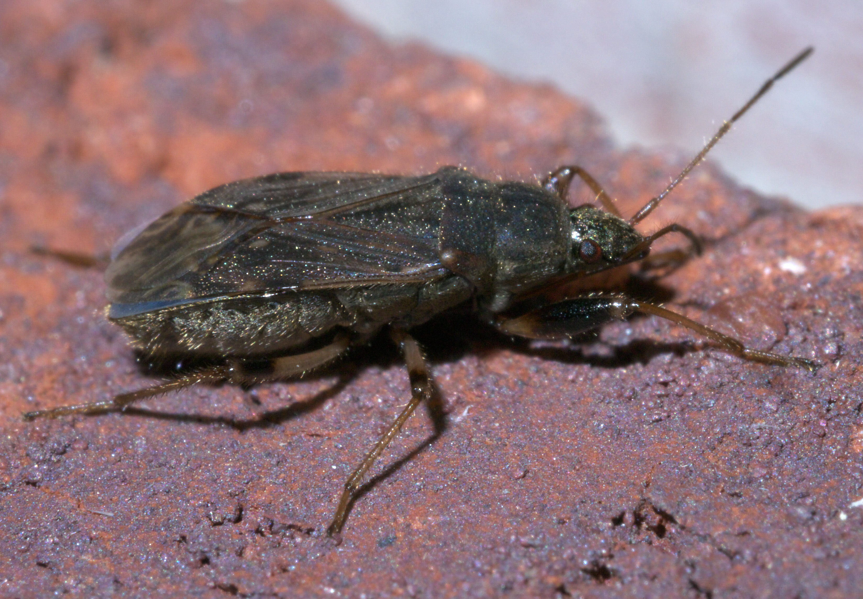 Perigenes constrictus, Family: Dirt-colored Seed Bugs, ID Confidence: 97